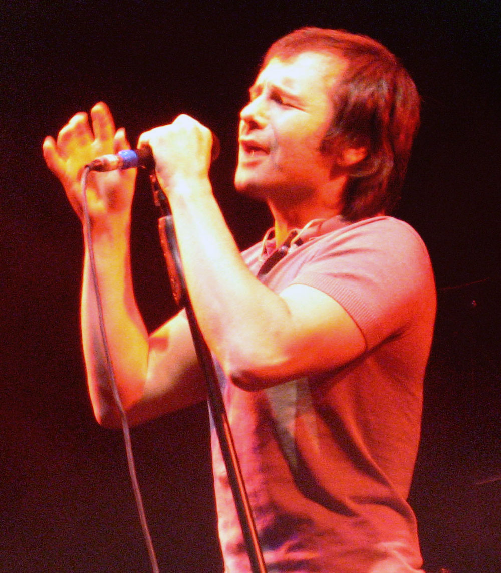 Svyatoslav Vakarchuk of Okean Elzy at B1 Maximum Club in Moscow, Russia.